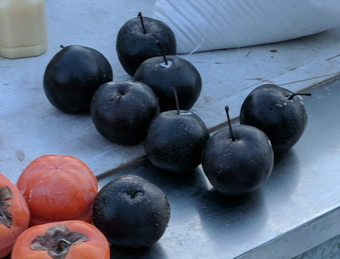 Photoed in Jilin City, China. Near Rime Island. The fruit to the left is persimmon and the other one is Dongli (lit. frozed-pear). Dongli are usually ussurian pear being frozed until it turns black. When frozing, ice is formed inside pear's cells while phenol make it turns color. Dongli is a special food in Northeastern China.